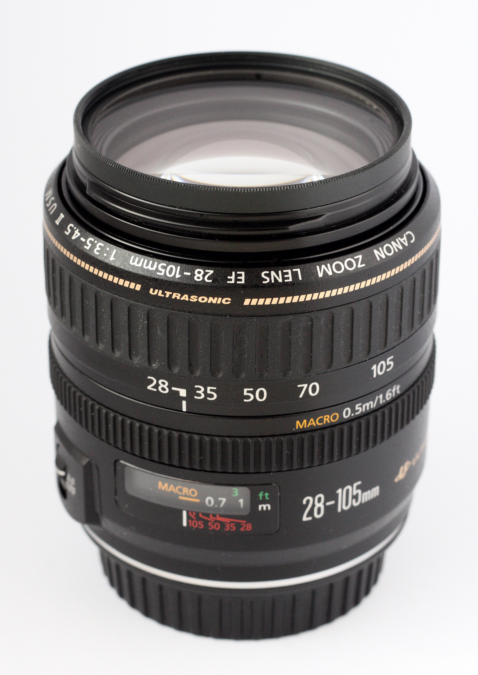 Canon EF 28-105 mm f/3.5-4.5 USM II lens (with filter).